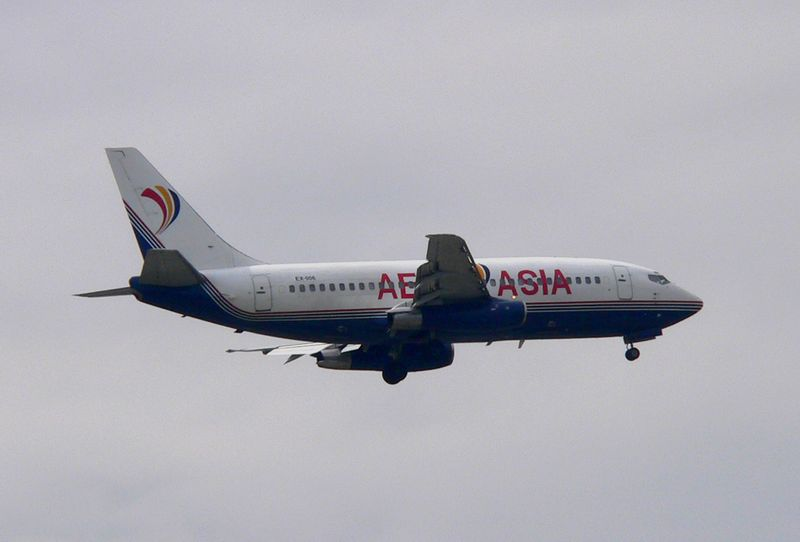 An Aero Asia Boeing 737 approaching the runway at Allama Iqbal International Airport, Lahore. [Panasonic FZ15, 420mm] Image by Waqas Usman. More images at and